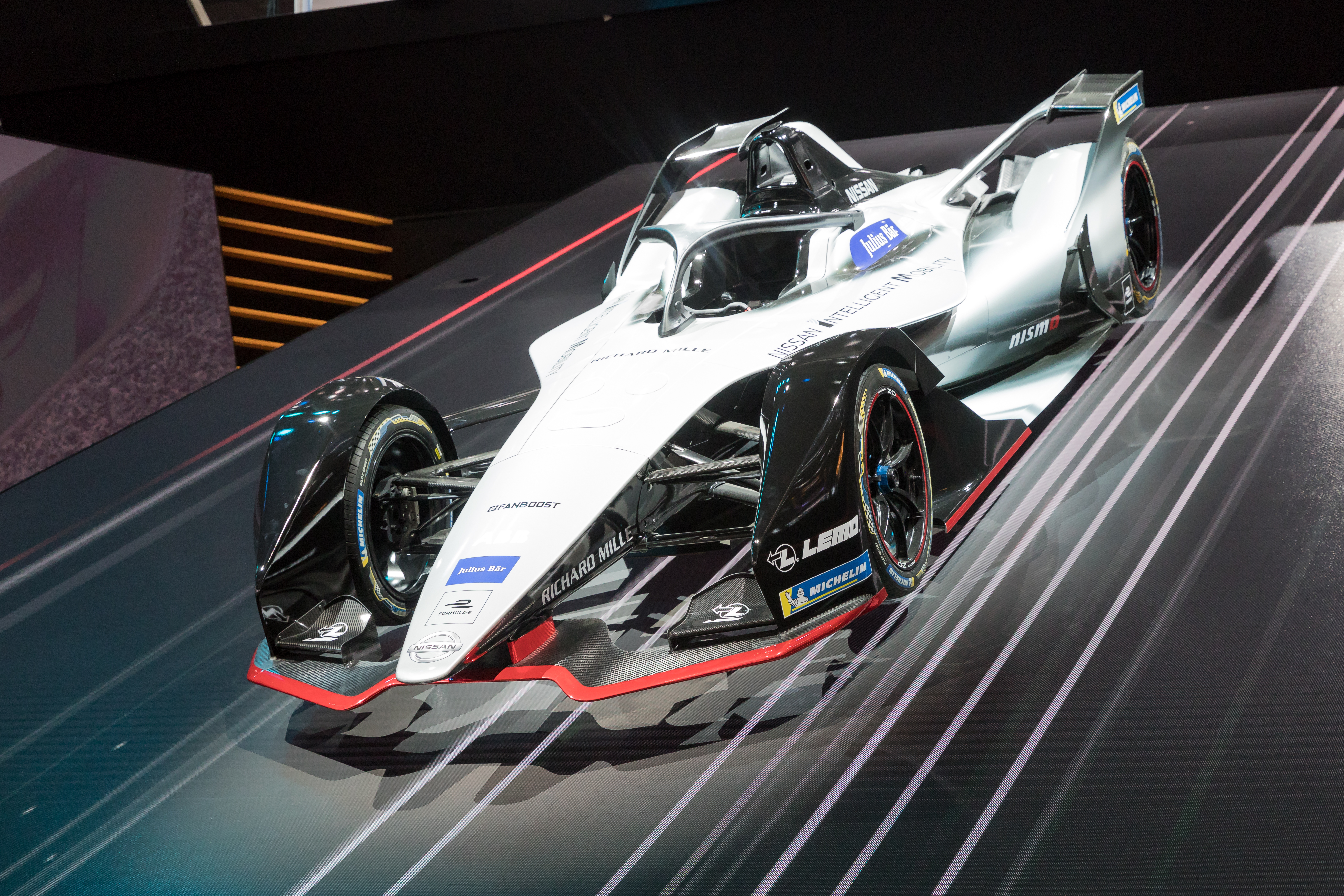 Geneva International Motor Show 2018